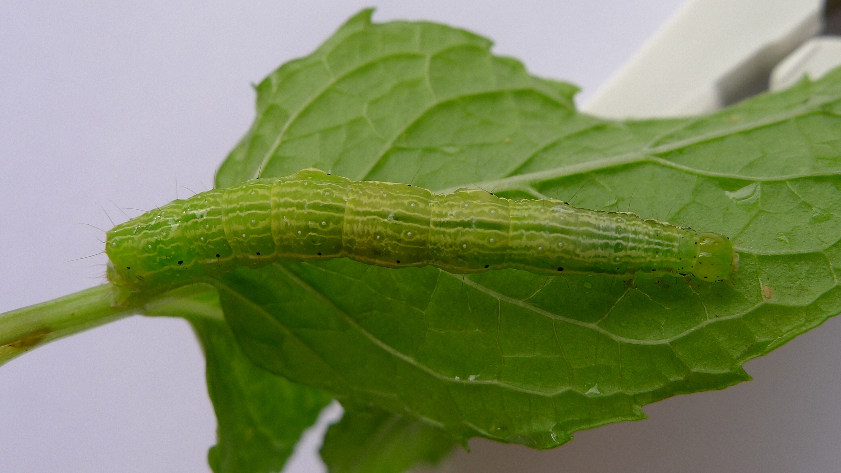 Tobacco Looper, Chrysodeixis argentifera on mint. Como NSW Australia, January 2012. Chrysodeixis caterpillars have two pairs of abdominal legs; taper towards the head; are green or blue green; arch the middle part of the back and move with a looping motion. When disturbed they move the forward portion of the body about in wide sweeping arcs. Specifically, Chrysodeixis argentifera caterpillars have two longitudinal white stripes on the back and a row of body hairs with dark coloured bases along each side of the body. From AGbulletin 2, The Identification of Armyworm, Cutworm, Budworm and Looper Caterpillar Pests, Graham Goodyer, Department of Agriculture, NSW, February 1978.